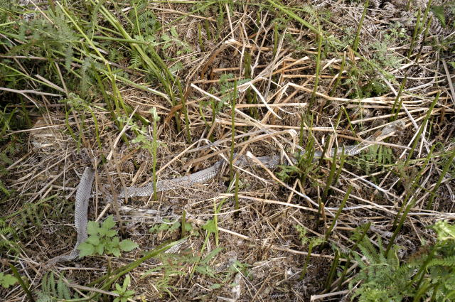 Natrix natrix shed skin, from Commanster, Belgian High Ardennes (50°15'20``N,5°59'58``E)